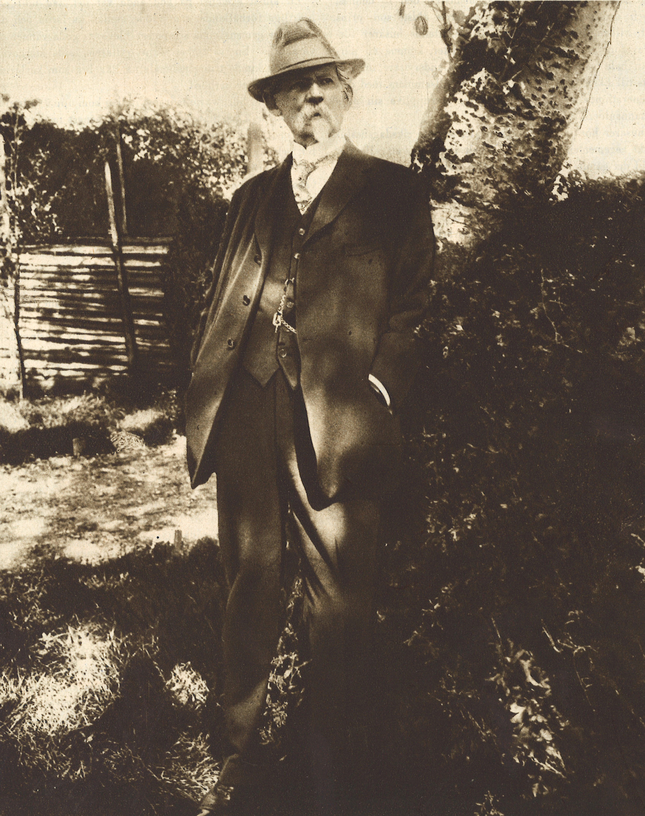 Gustaf Rydberg (1835-1933), Swedish landscape painter.